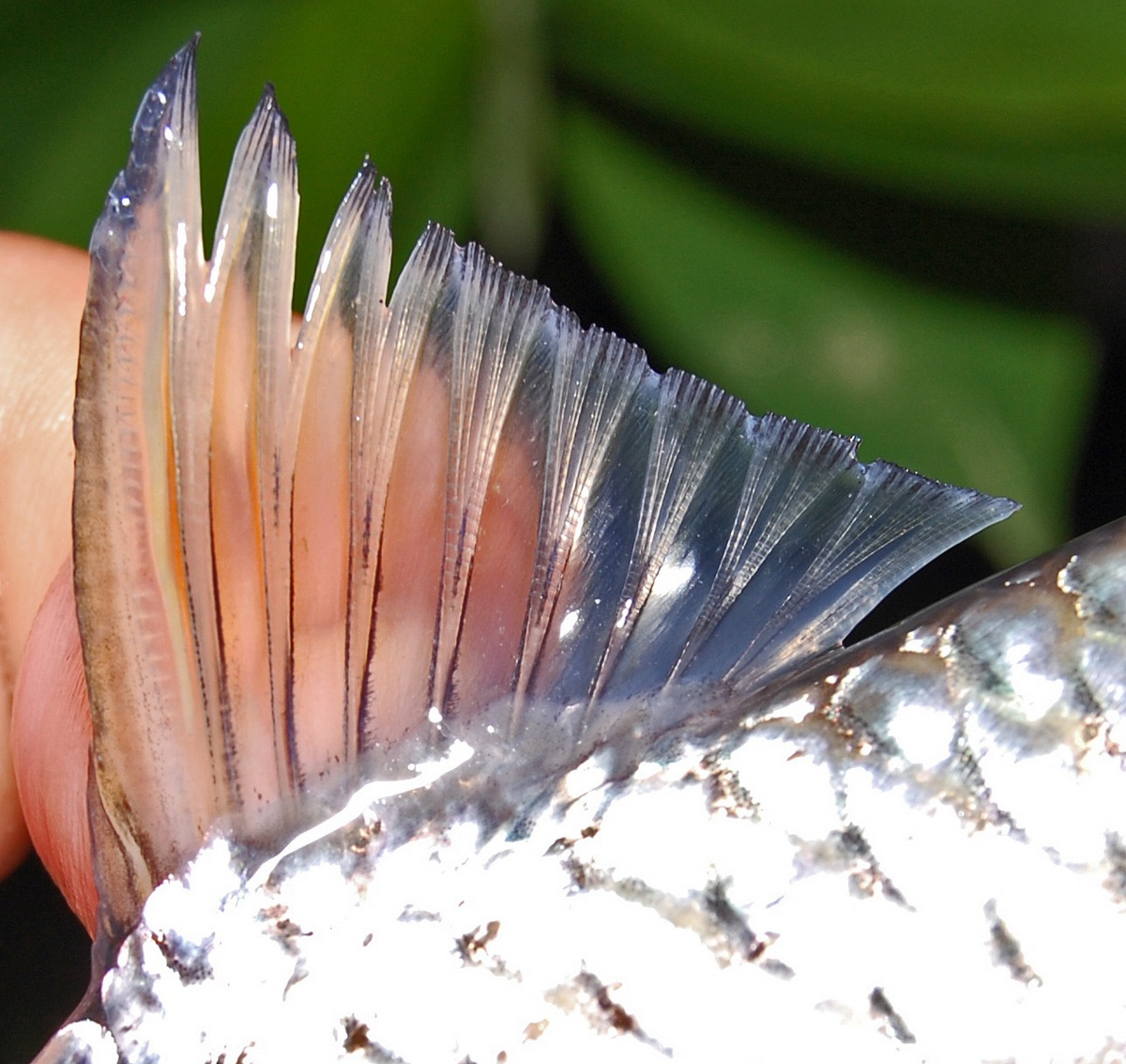 Barbonymus gonionotus (122mm SL), dorsal fin. From Cisadane River, Situgede, Bogor, West Java, Indonesia errata: Misidentified, it should be Mystacoleucus marginatus